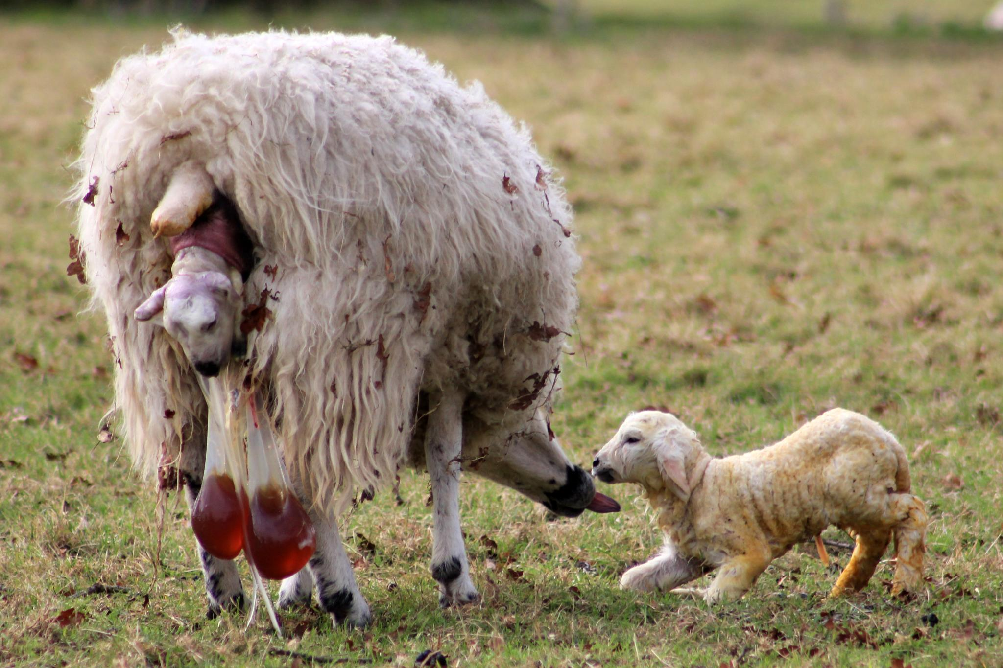 Lambing in England.